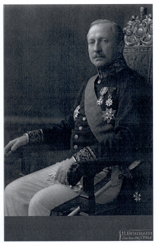 Minister L.H.W.Regout